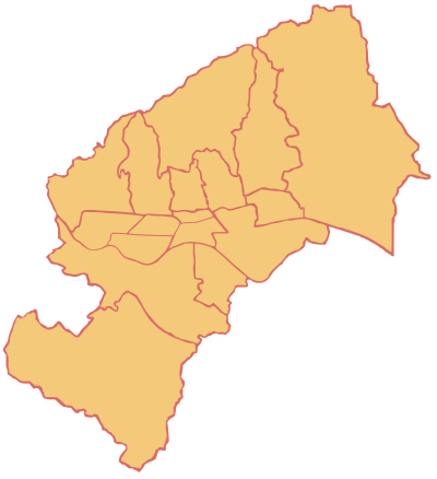 Zagreb's city districts